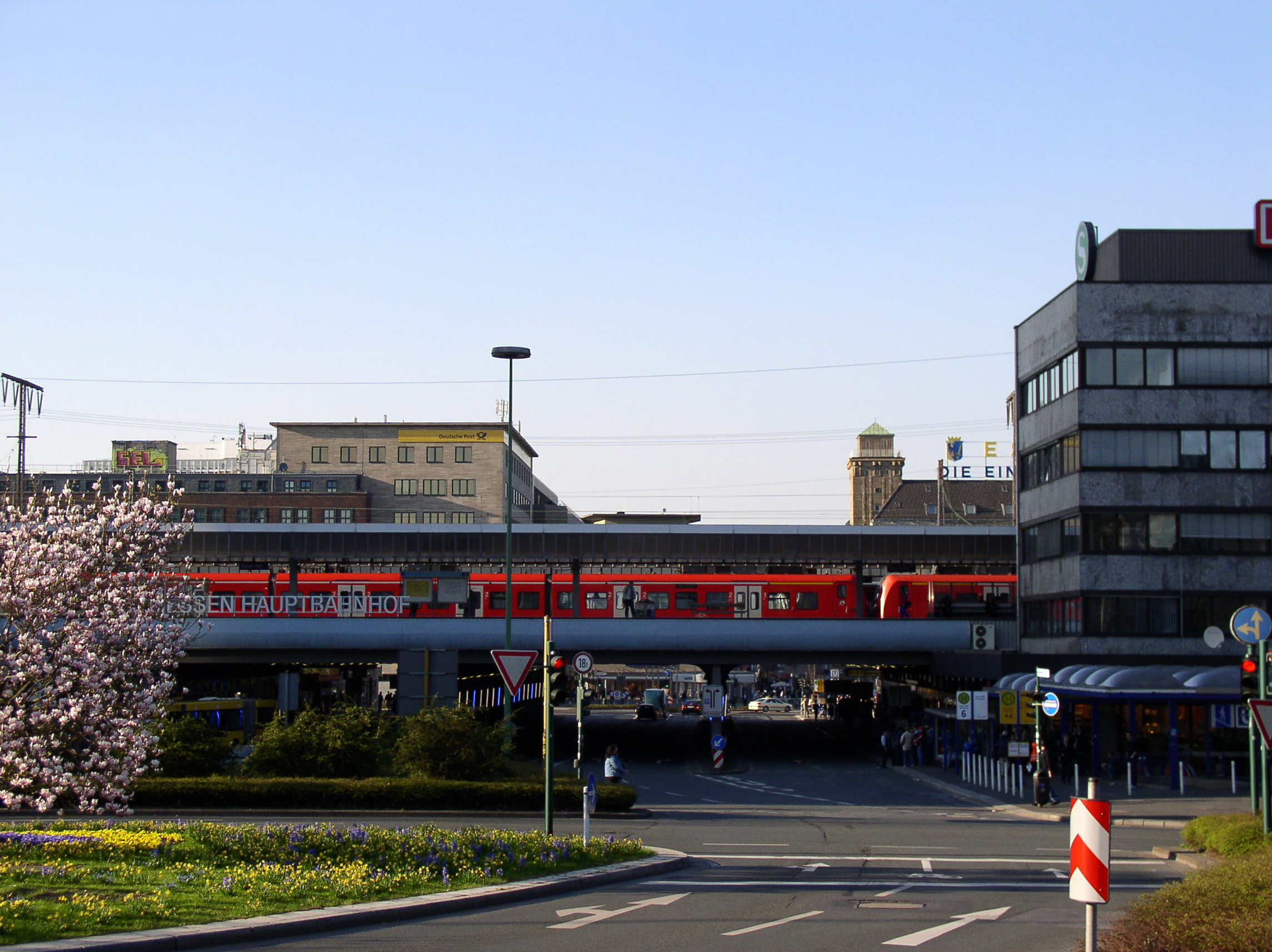 Description: Hauptbahnhof Essen und Freiheit Source: photo taken by me, April 2005 Photographer: Baikonur